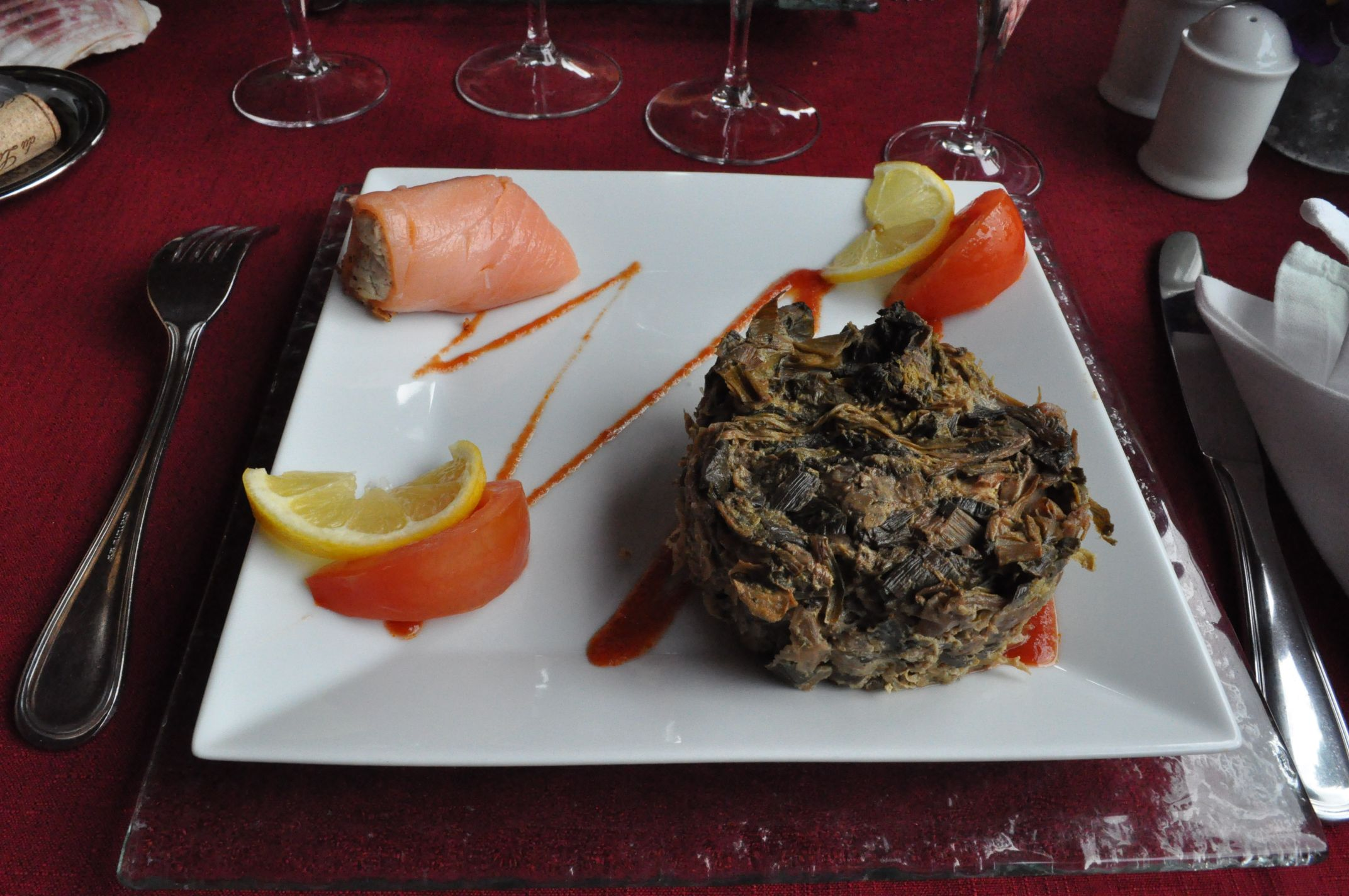 Farci Poitevin, traditional dish from Marai Poitevin, as served in a restaurant in Arcais, France.